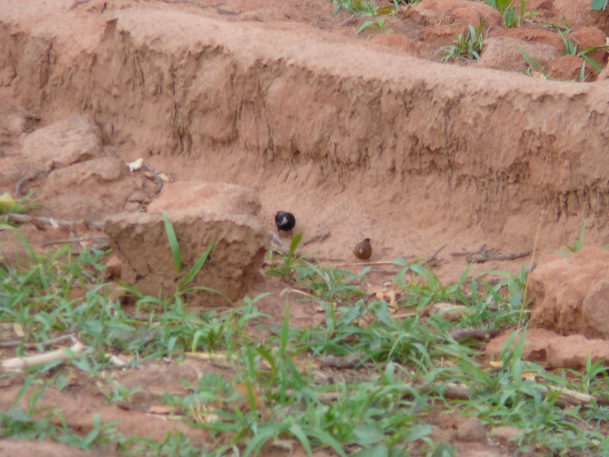 Village Indigobird (left, Male) and Red-billed Firefinches (right, female)